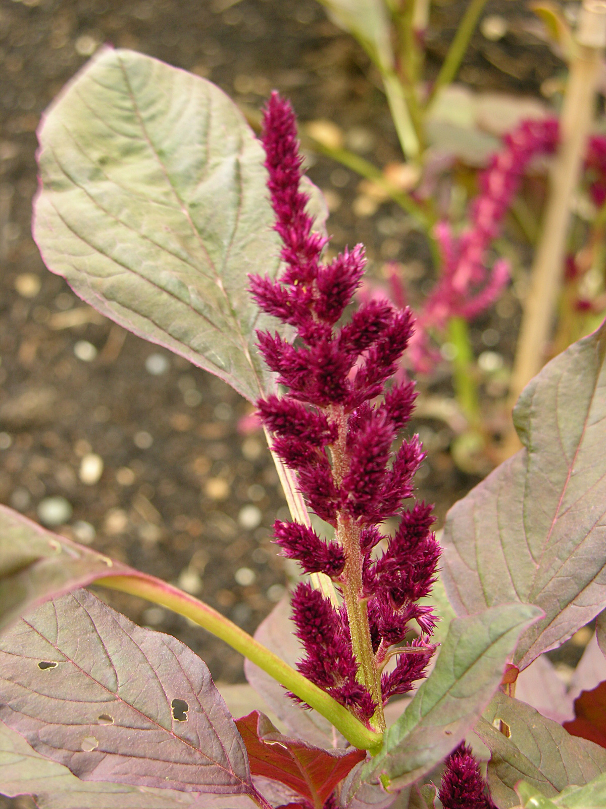 Picture of an Amaranthus cruentus en flower. Photo taken at the Chanticleer Garden where it was identified.